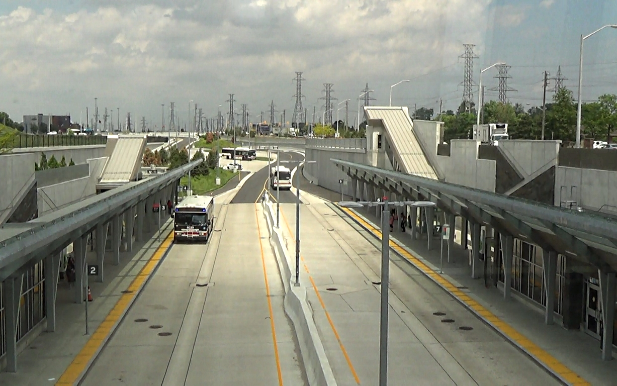 Renforth station from the pedestrian overpass between the platforms